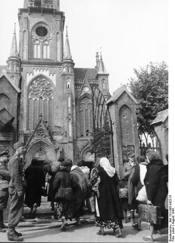 Warsaw Uprising